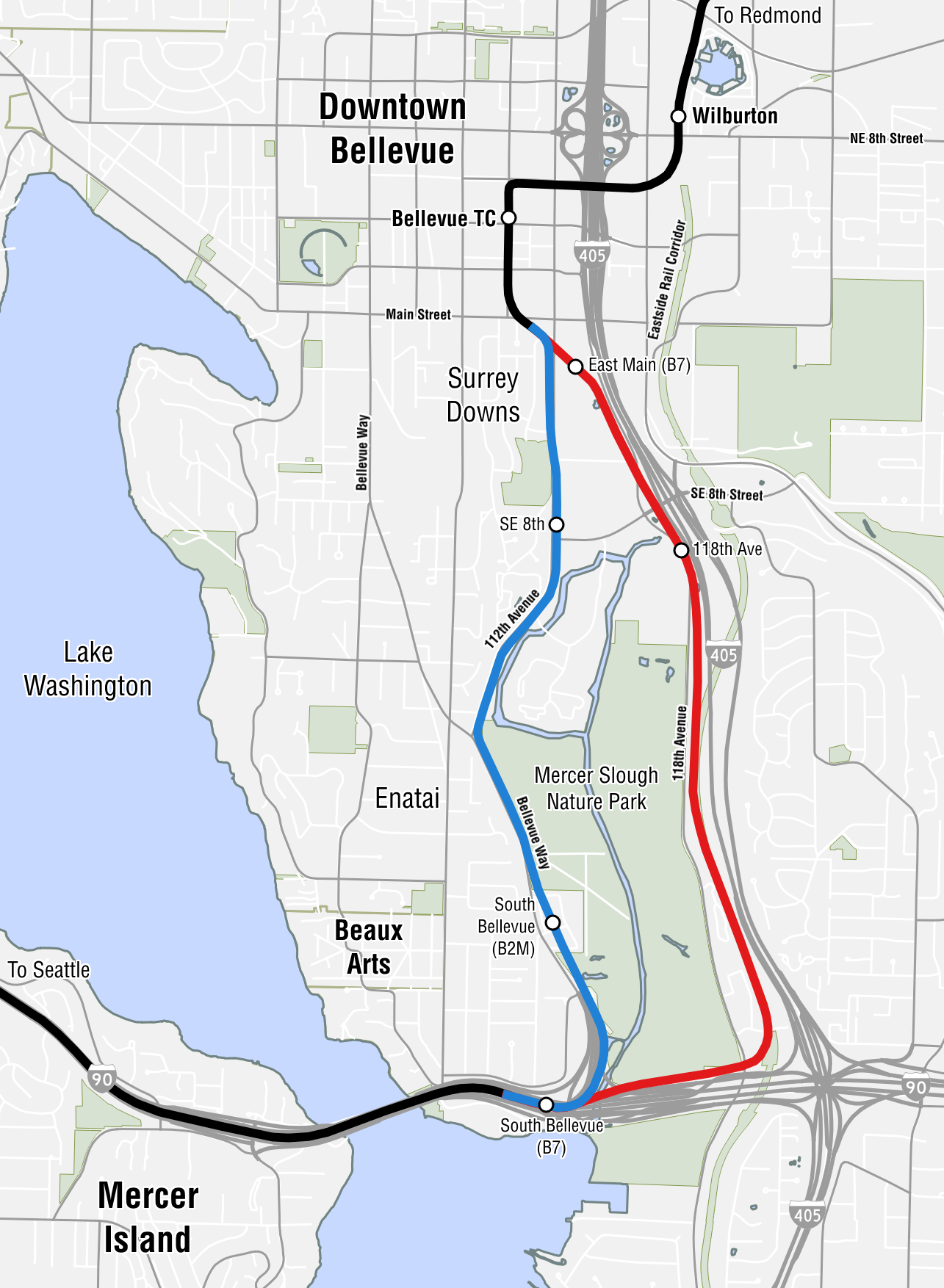 A map of the preferred alignments for the East Link Extension through southwestern Bellevue. The B2M alignment (blue) was favored by Sound Transit, while the B7 alignment (red) was favored by a majority of the Bellevue City Council.